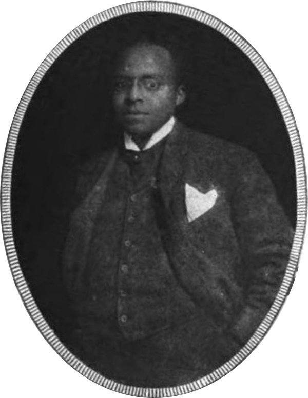 Philip A. Payton, Jr., the "Father of Harlem". Cropped illustration from Chapter XIX, "Philip A. Payton, Jr., and the Afro-American Realty Company", between pages 200 and 201 of The Negro in Business, by Booker T. Washington, published 1907.